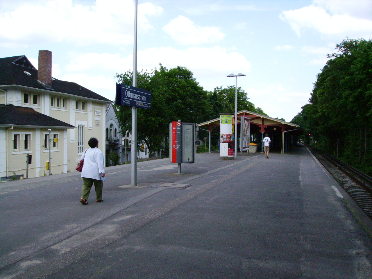 Othmarschen railway station, Hamburg S-Bahn, Hamburg, Germany